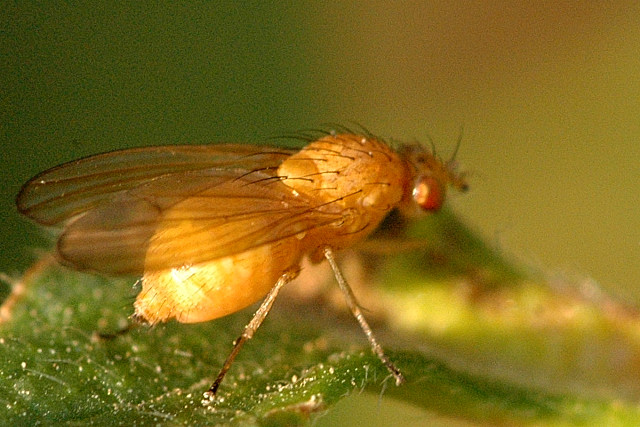 Picture taken in Commanster, Belgian High Ardennes . Species: female Sapromyzosoma quadricincta